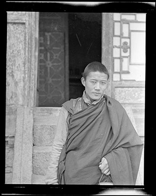 Kundeling Dzasa Woser Gyaltsen